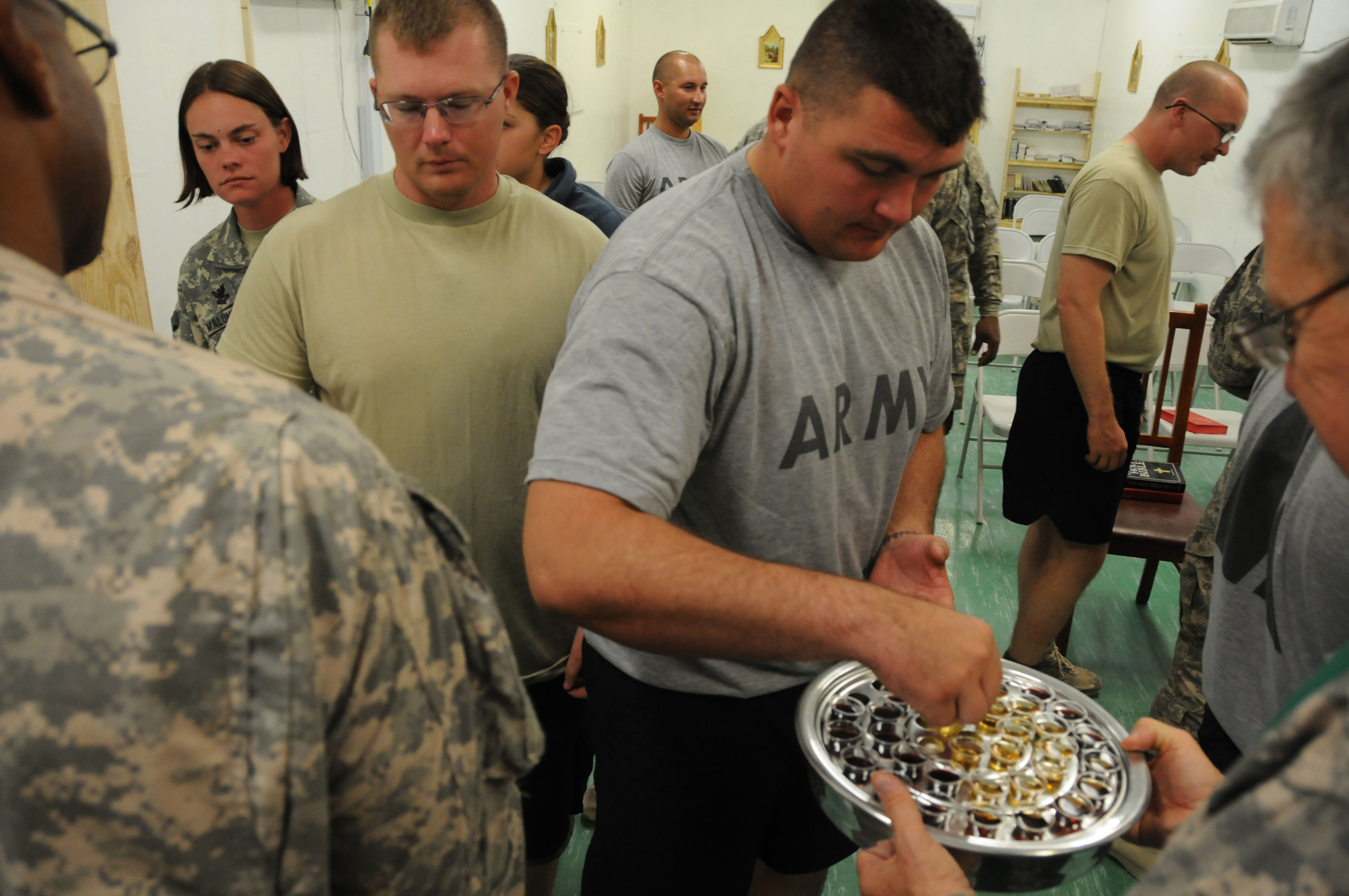 Members of Provincial Reconstruction Team Ghazni, take part in communion during a religious service given by Lt. Col. Kent Berry, an Army chaplain from FOB Mehtar Lam in the Laghman province, Afghanistan, during his visit to the deployed service members assigned to Forward Operating Base Ghazni, Afghanistan, Sept. 24. Lt. Col. Berry and his team are visiting 221st Cavalry Regiment Security Forces members located in Regional Command East, Afghanistan.